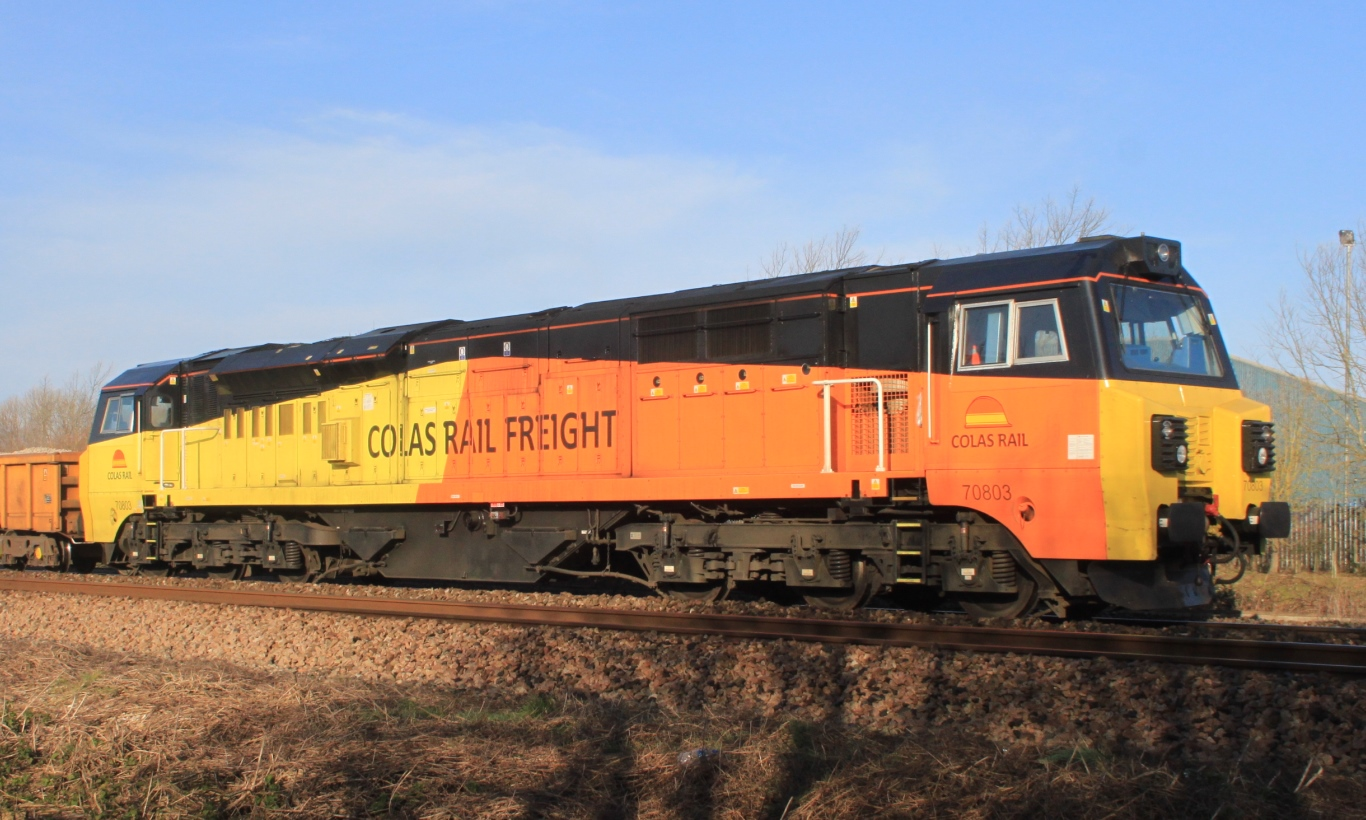 Colas Rail's 70803 sits with an engineering train outside Taunton while the East Junction is being relaid.